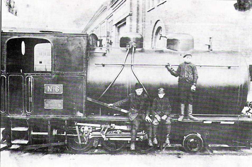 a Henschel fireless locomotive